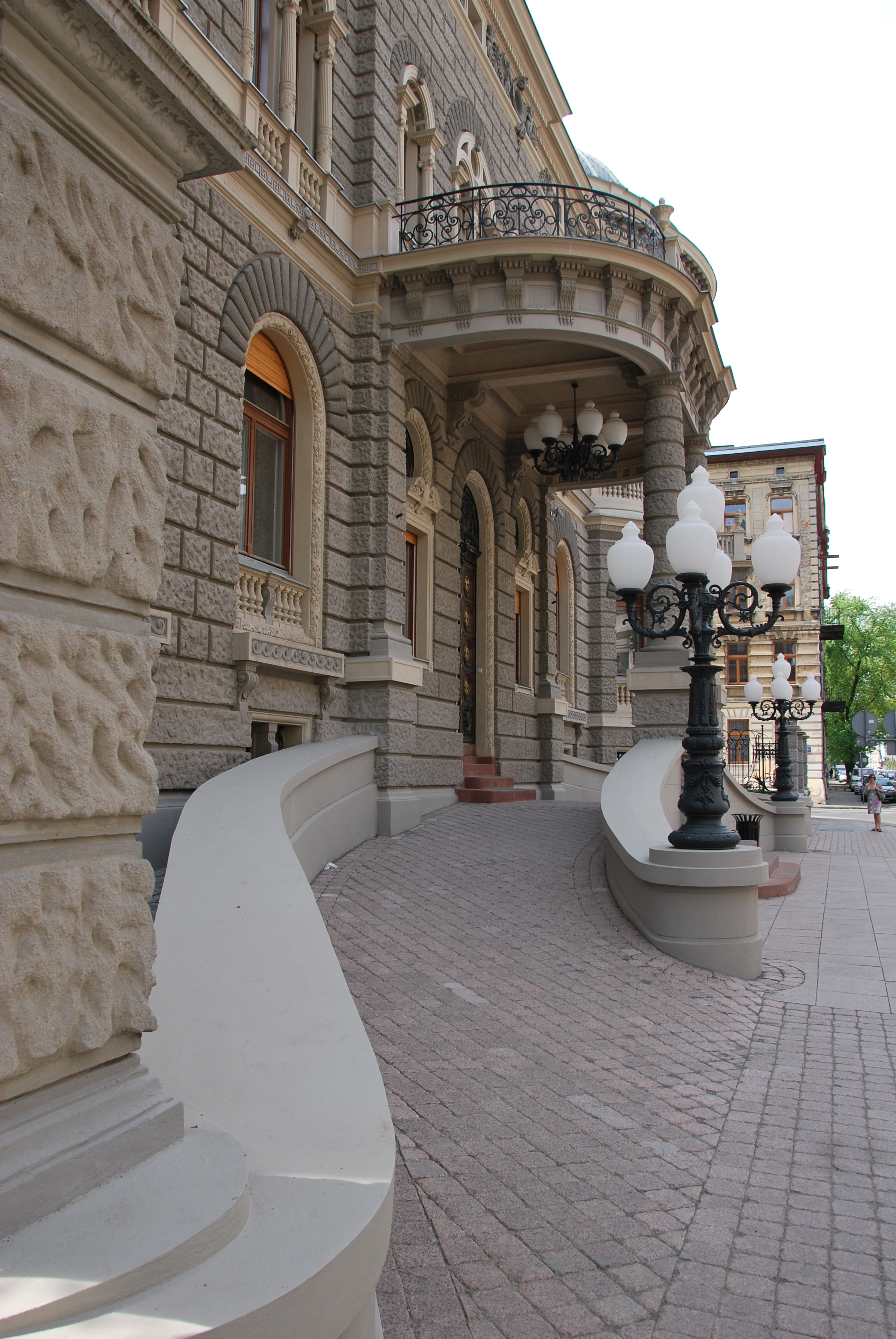 Academy of Music in Łódź - Karol Poznański's palace, entrance